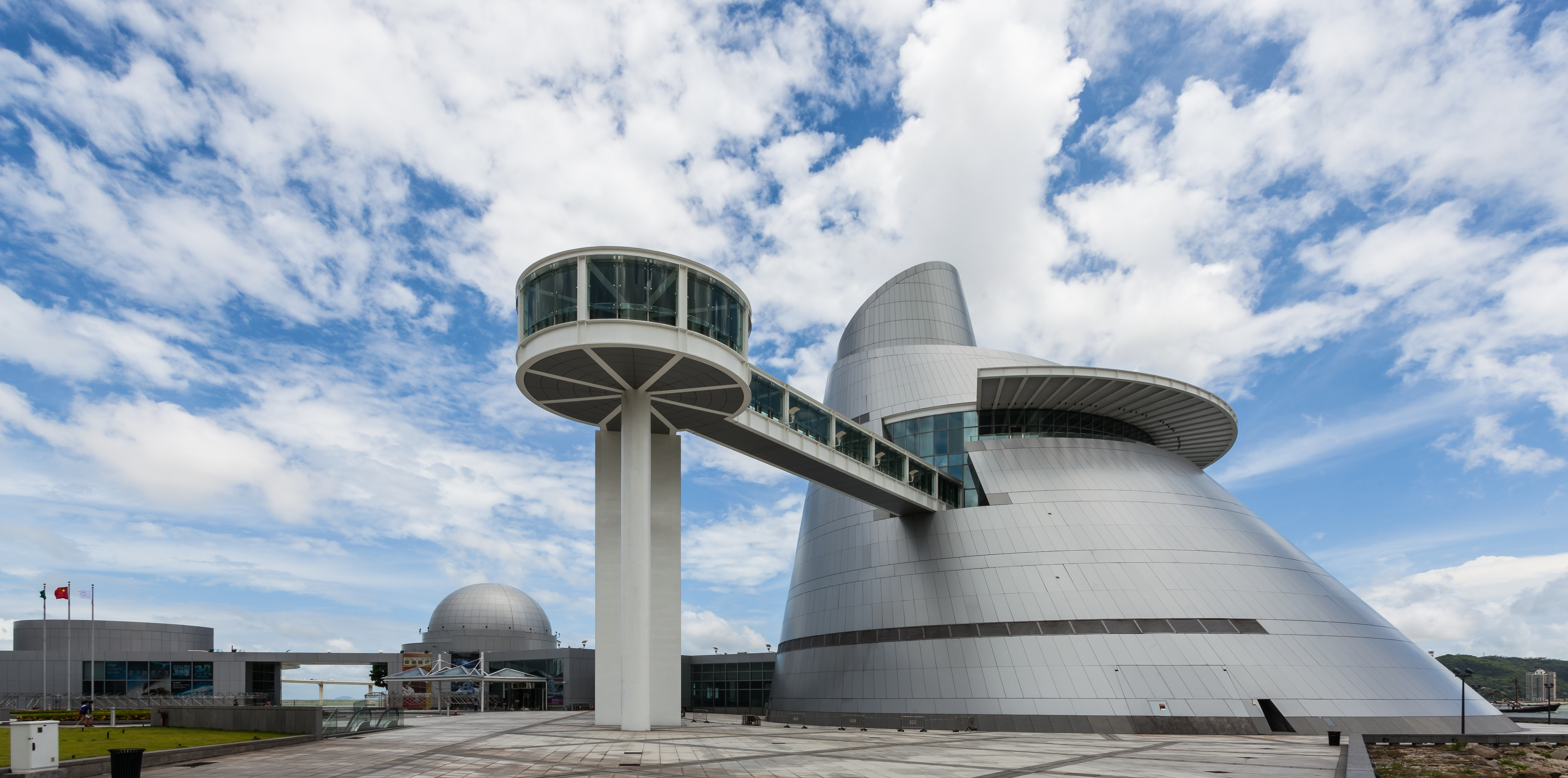 Science Center, Macau